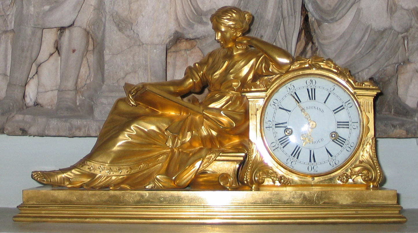 an image of bronze clock